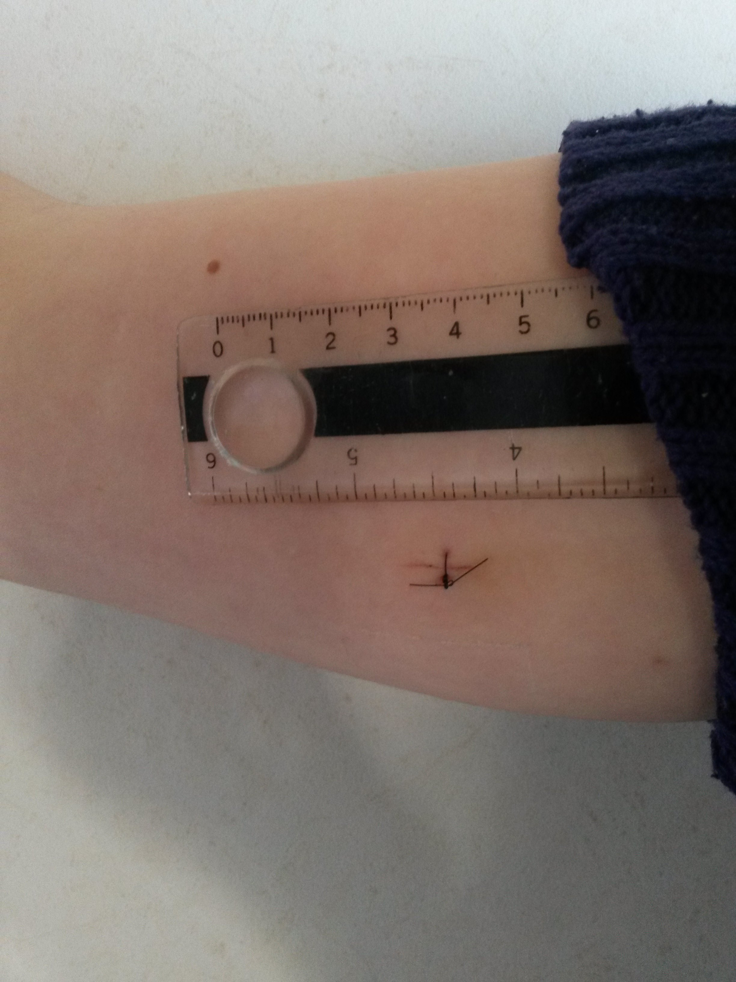 The stitch that was made after the removal of my implanon